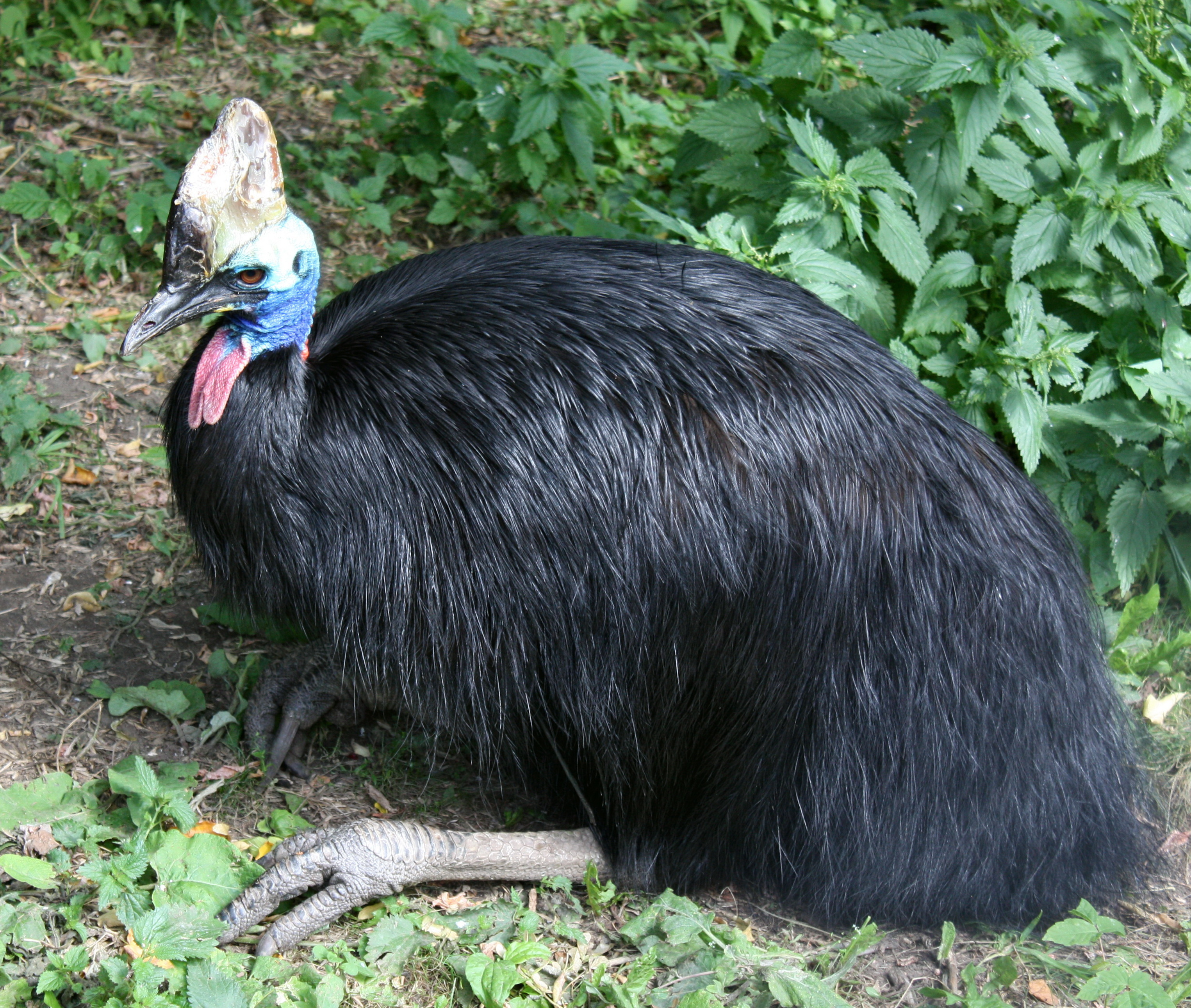 Southern Cassowary (Casuarius casuarius) in the aviary of the Moscow Zoo in August 2009